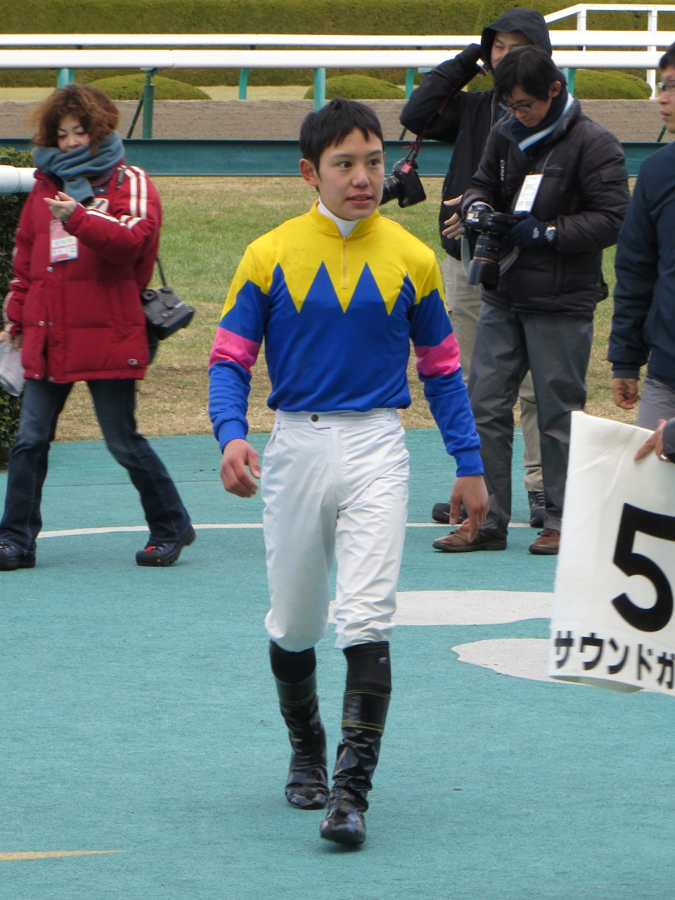 Yuji Hishida (Jockey from Japan).